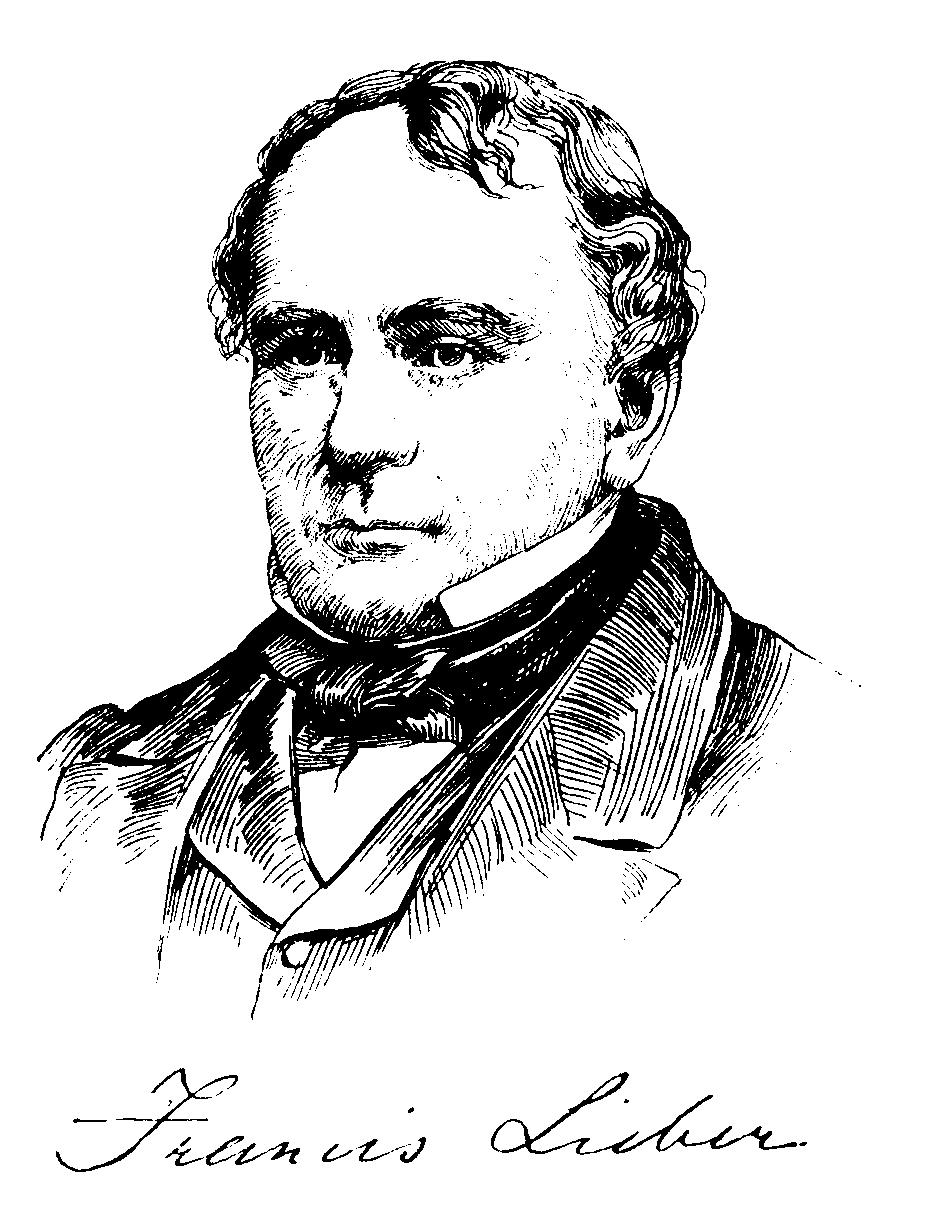 Francis Lieber (1798-1872), German-American lawyer, legal philosopher and political scientist